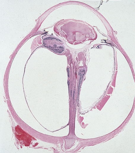 EYE AND OCULAR ADNEXA: PERSISTENT HYPERPLASTIC PRIMARY VITREOUS Falciform fold of detached dysplastic retina encircles the persistent hyaloid artery that extends from the optic nerve head to the retrolental mass.